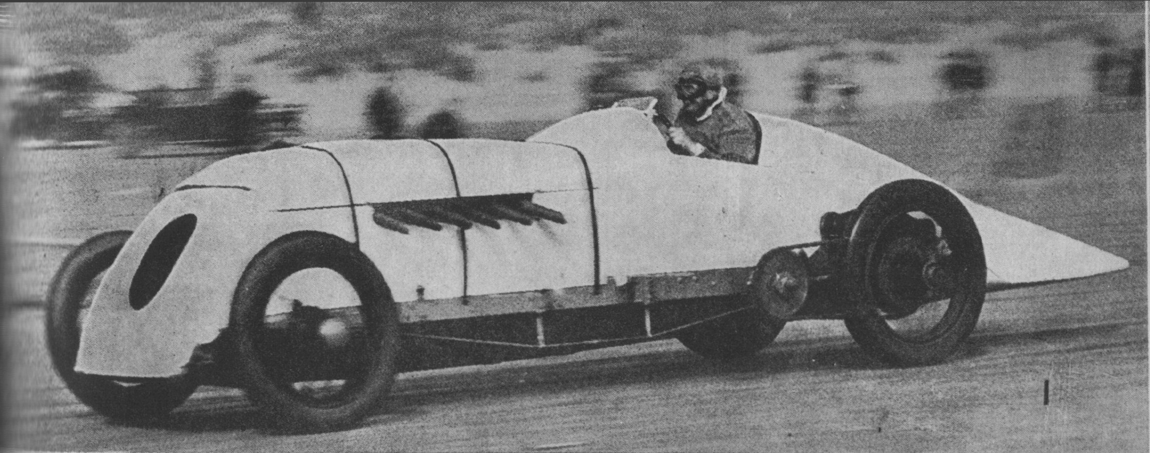 Mr J.G. Parry Thomas breaking the world land speed record at Pendine Sands on April 28, 1926. Driving Babs Approximate date of photograph: 1926-04